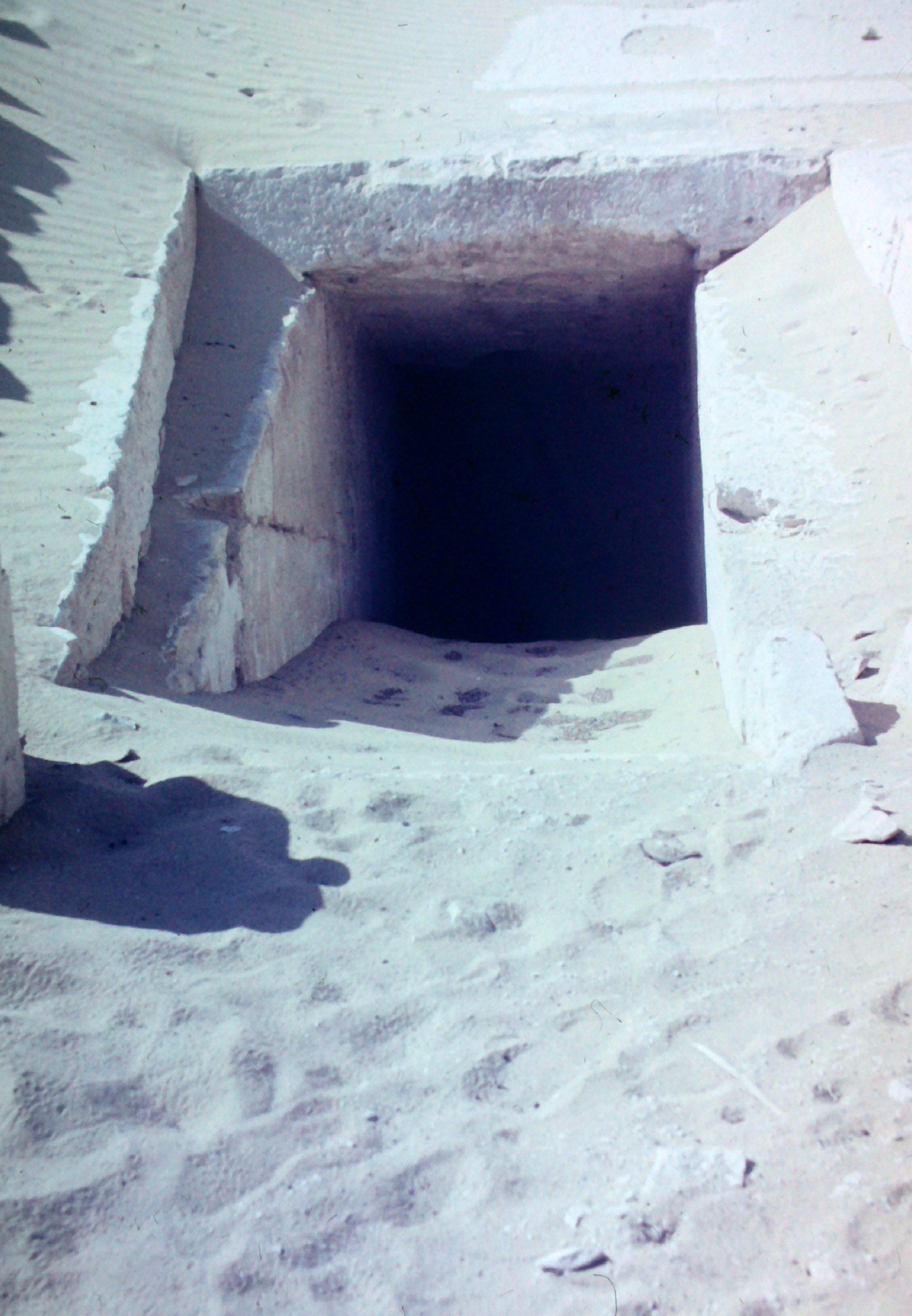 Enterance to the Pyramid of Unis in Sakkara